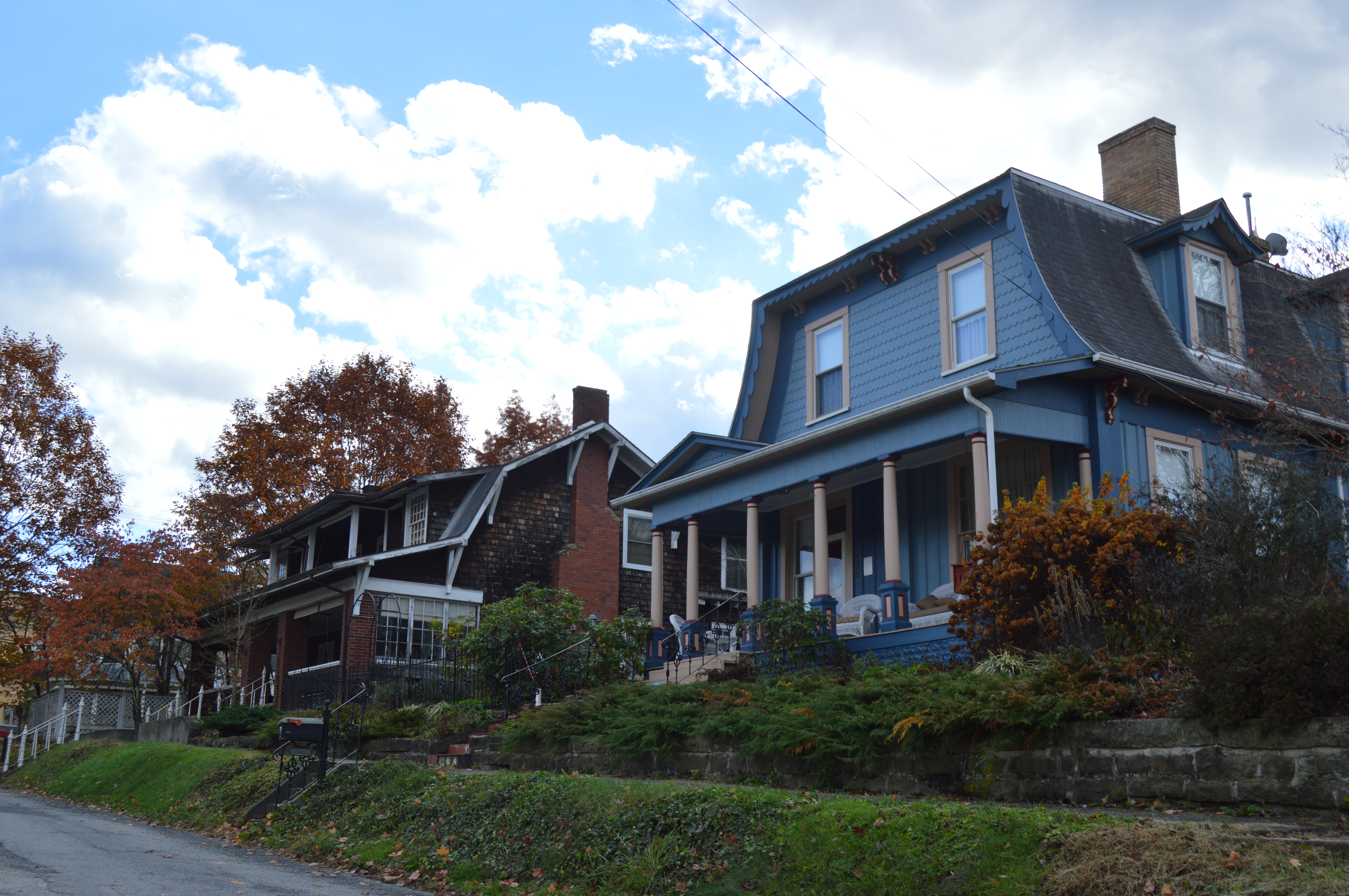 Houses on the southern side of Court Street east of Columbia Street in West Union, West Virginia, United States. This block is part of the West Union Residential Historic District, a historic district that is listed on the National Register of Historic Places.